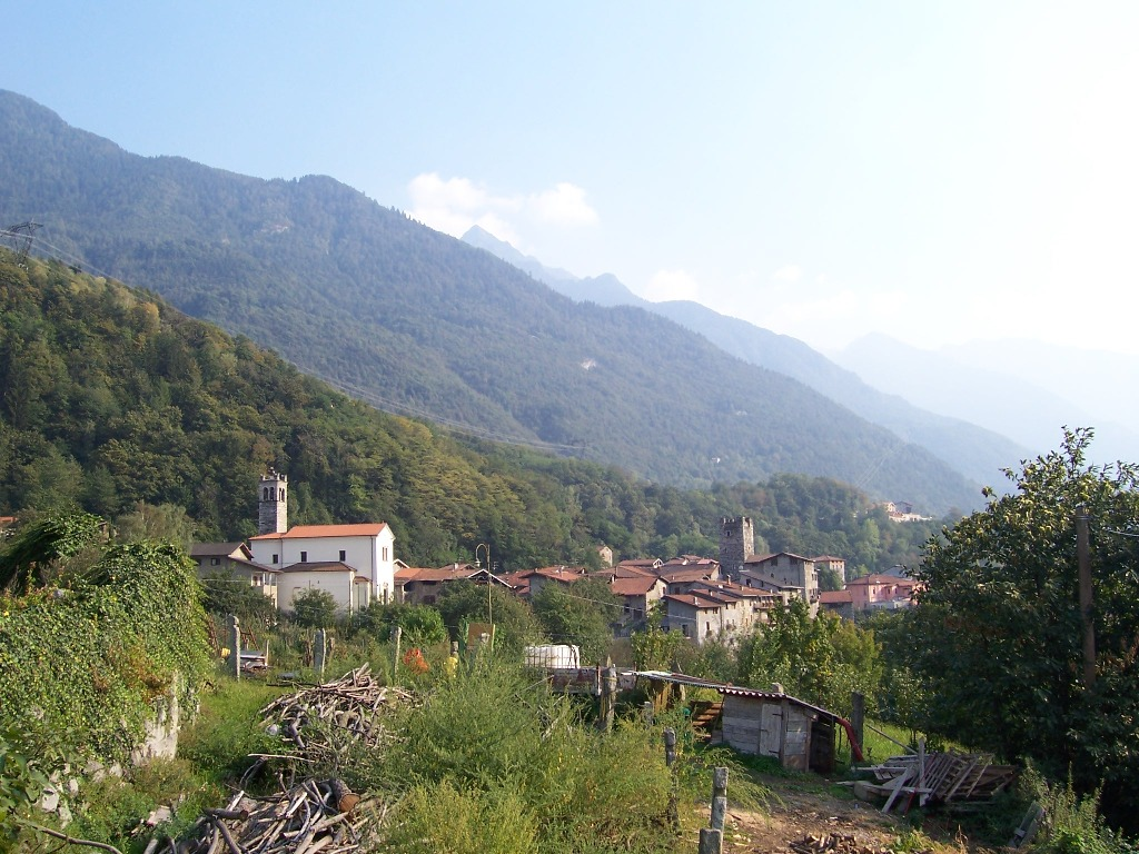 Nadro, Val Camonica, Italia